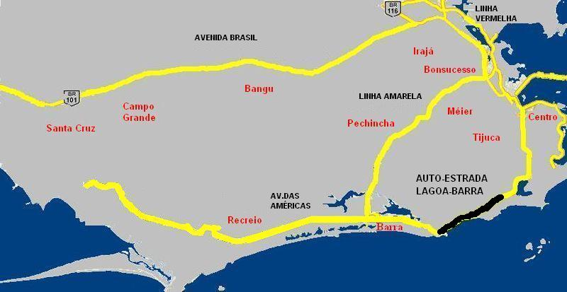 Auto-Estrada Lagoa-Barra - Rio de Janeiro-RJ - Brasil